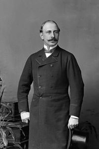 Duke of Teck by Alexander Bassano.